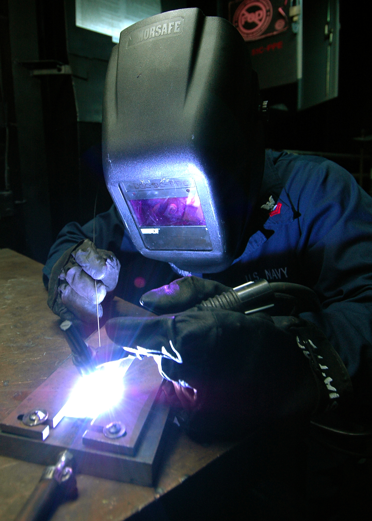 ARABIAN SEA (June 3, 2007) - Aviation Structural Mechanic 2nd Class Harold Macadangdang, performs a welding proficiency test aboard USS Bonhomme Richard (LHD 6) (BHR). Welding proficiencies are conducted prior to welding actual aircraft components. The BHR Expeditionary Strike Group (ESG) consists of Amphibious Squadron 7, BHR, USS Denver (LPD 9), USS Rushmore (LSD 47), USS Milius (DDG 69), USS Chung-Hoon (DDG 93), USS Chosin (CG 65), and 2,200 combat ready Marines of the 13th Marine Expeditionary Unit (MEU) (SOC). BHRESG is operating in the U.S. 5th Fleet Area of Operations and will be conducting Maritime Operations. U.S. and coalition forces conduct Maritime Operations to help set the conditions for security and stability in the maritime environment, as well as complement the counter-terrorism and security efforts of regional nations. U.S. Navy Photo by Mass Communication Specialist Seaman Cale Bentley (RELEASED)